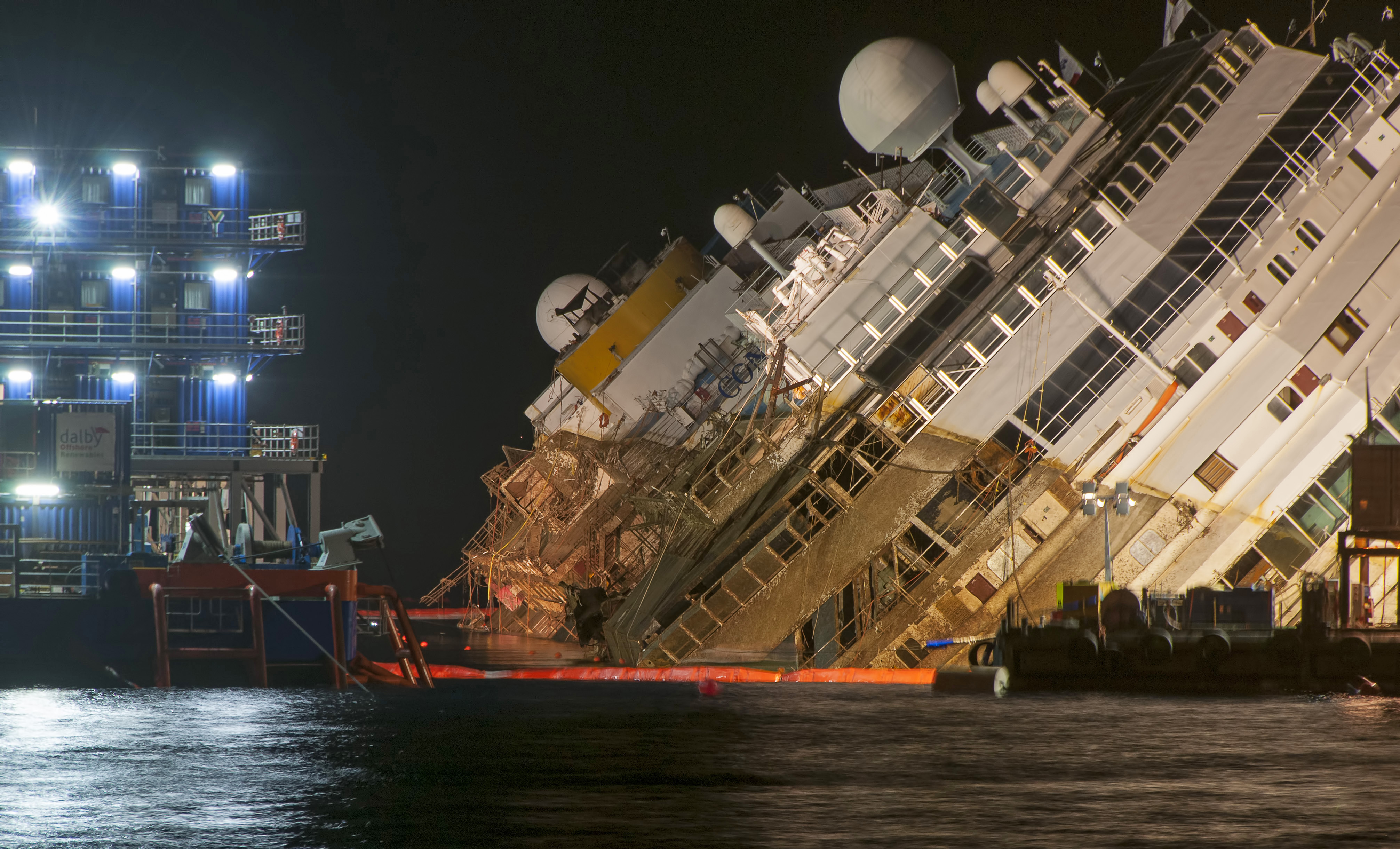 Sponsons are ready to fill with sea water, 24 degrees are almost reached